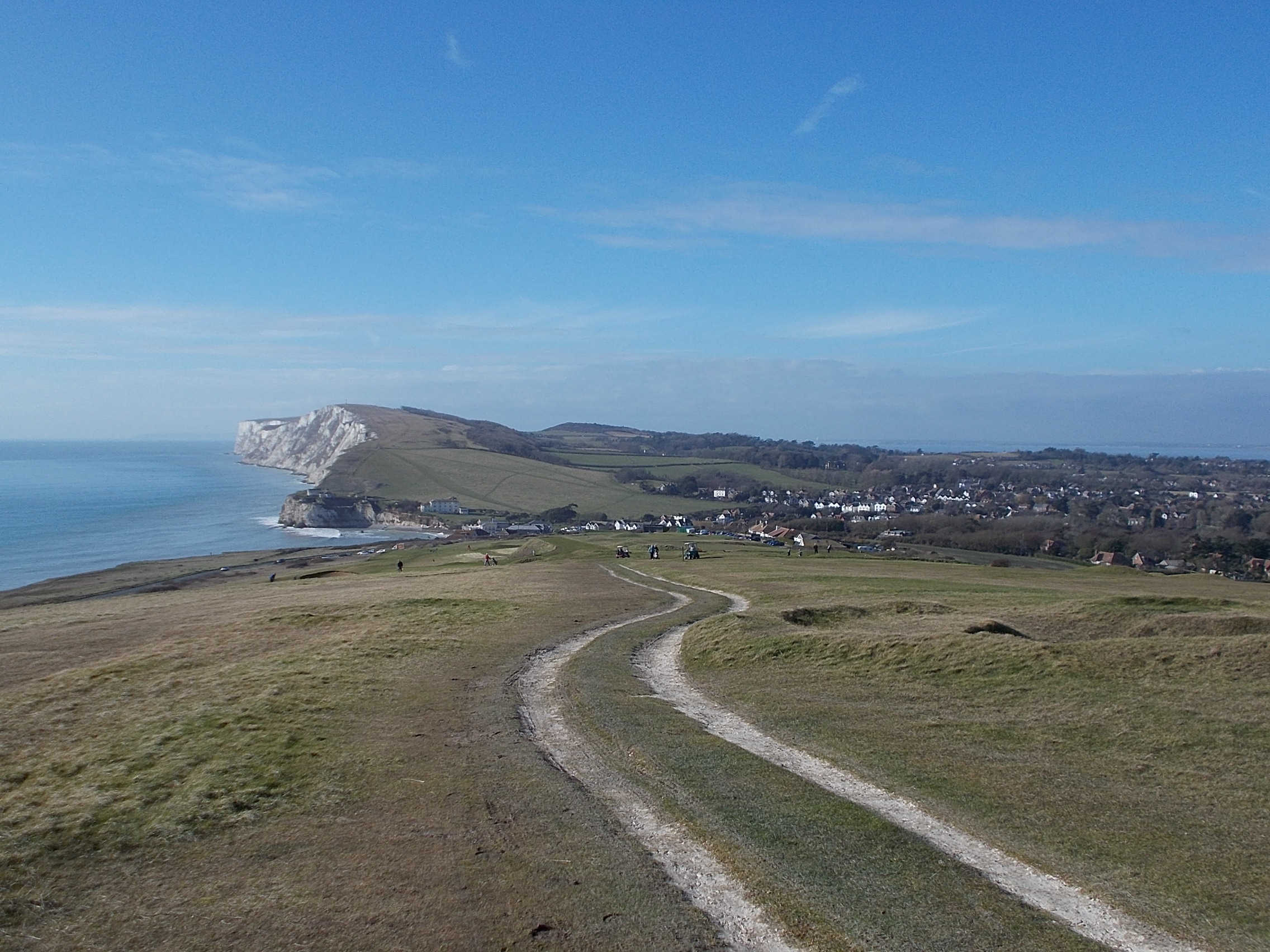 Tennyson Trail, Isle of Wight, UK. Looking west, descending towards Freshwater Bay.